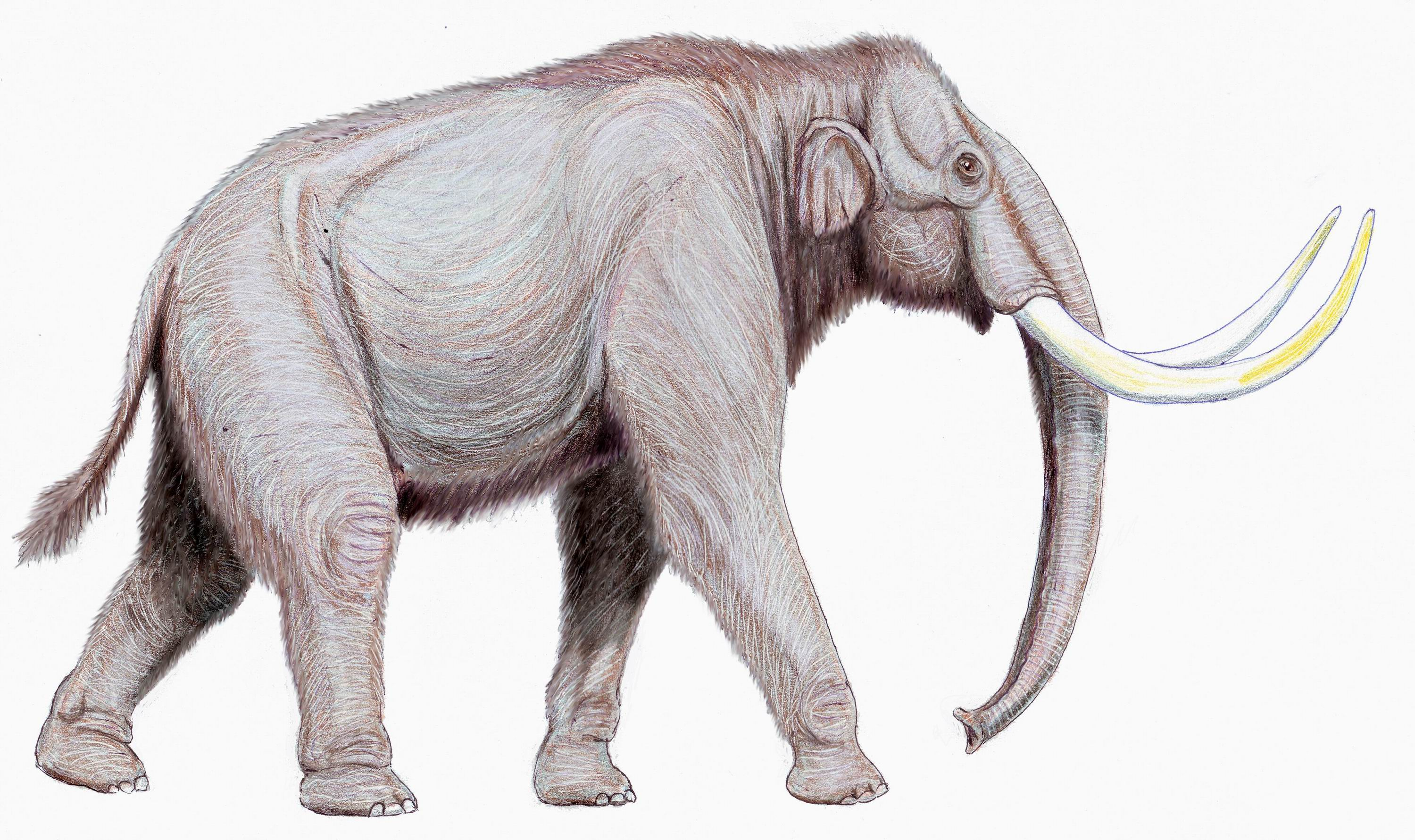 Mammuthus trogontherii, Steppe Mammoth.